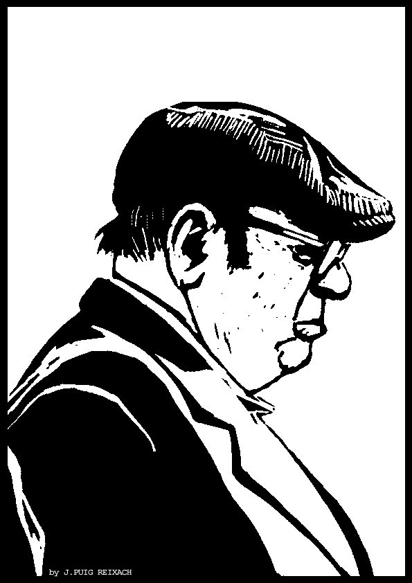 Samuel Ruiz García [digital illustration]